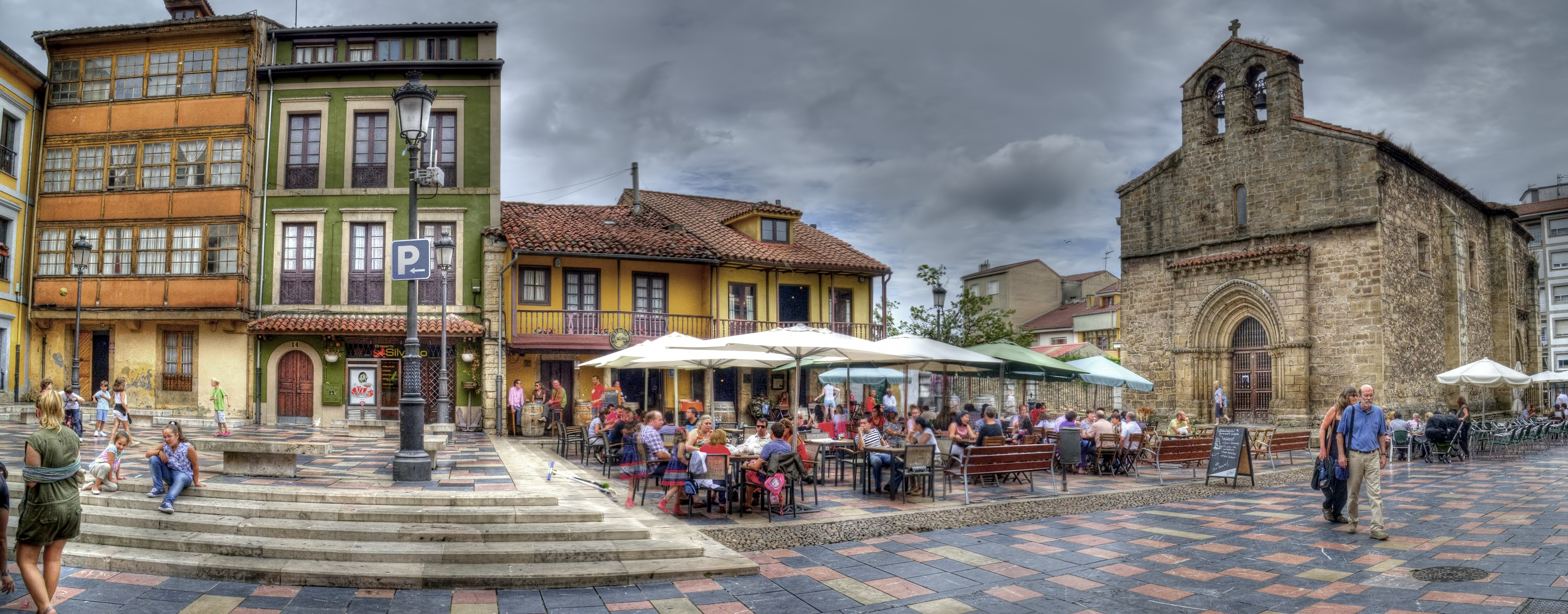 Square of Sabugo and old church (Avilés, Asturias)